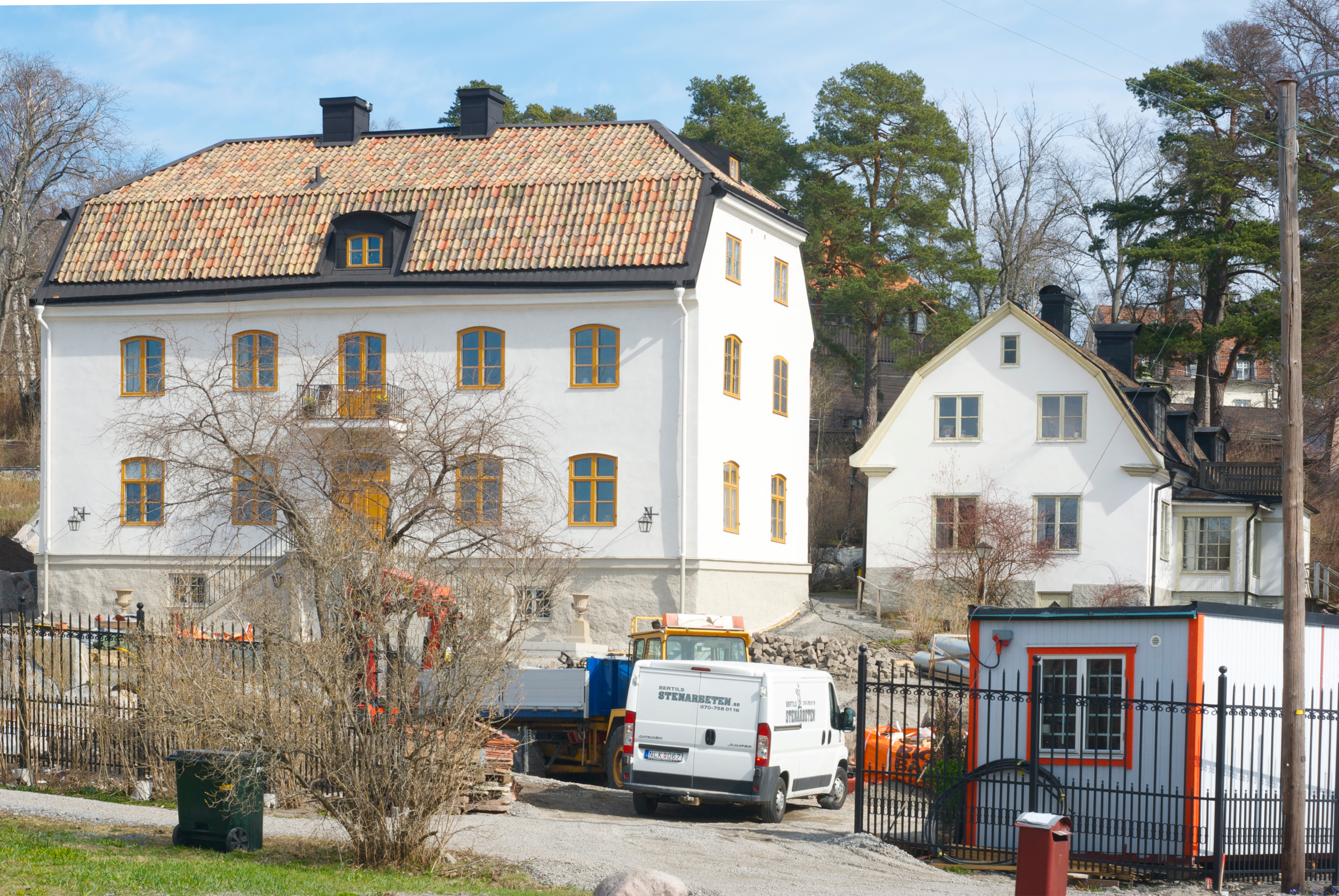 Duvnäs nedre gård april 2011